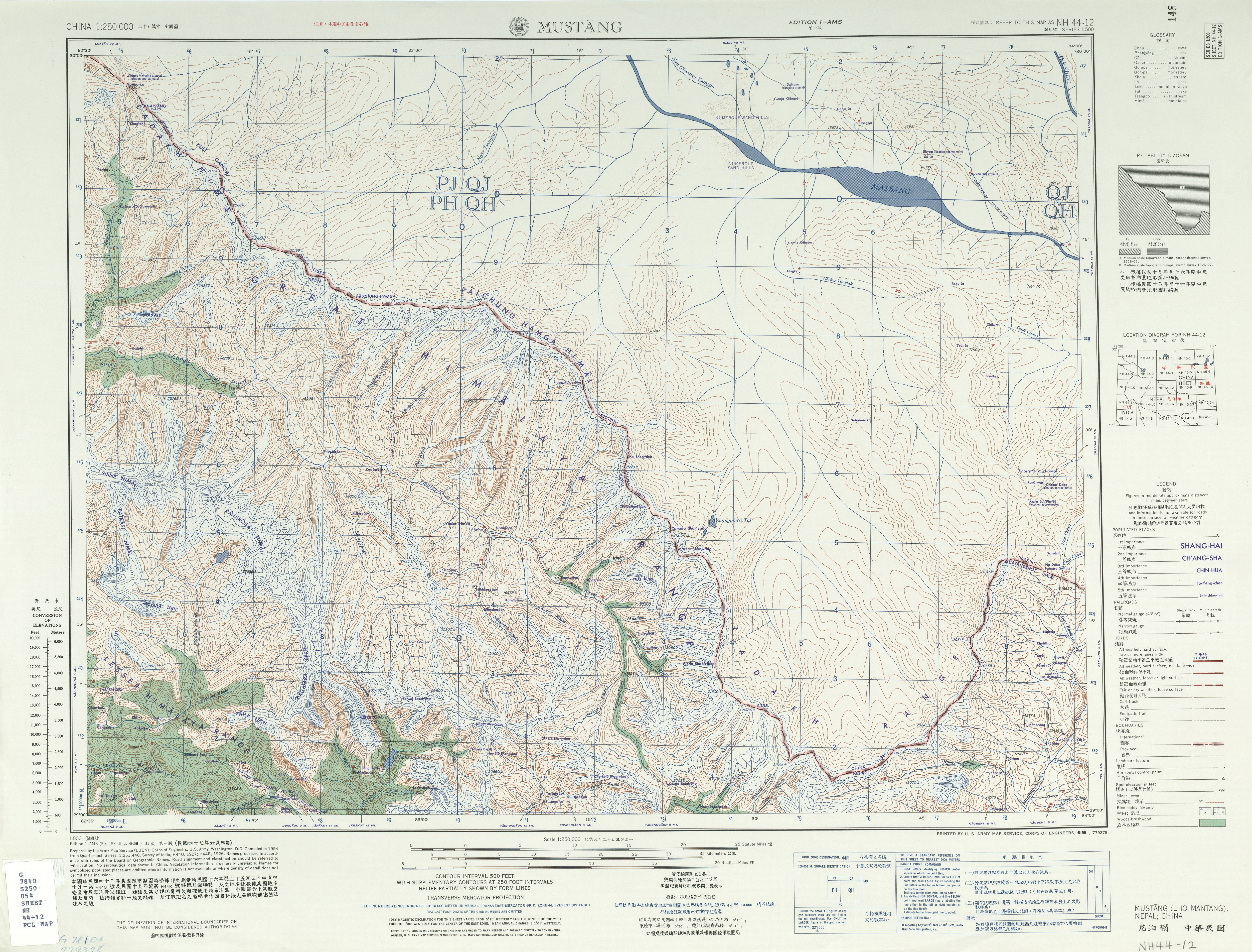 Map of Mustāng area, Tibet